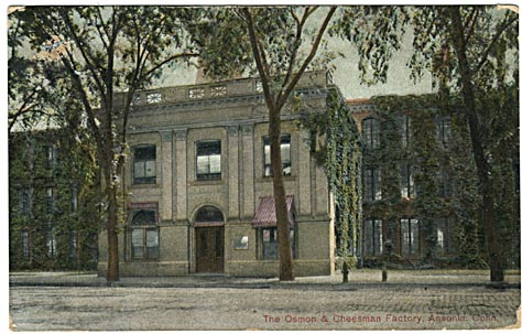 Postcard: "The Osman & Cheesman Factory, Ansonia, Conn." postmarked 1907